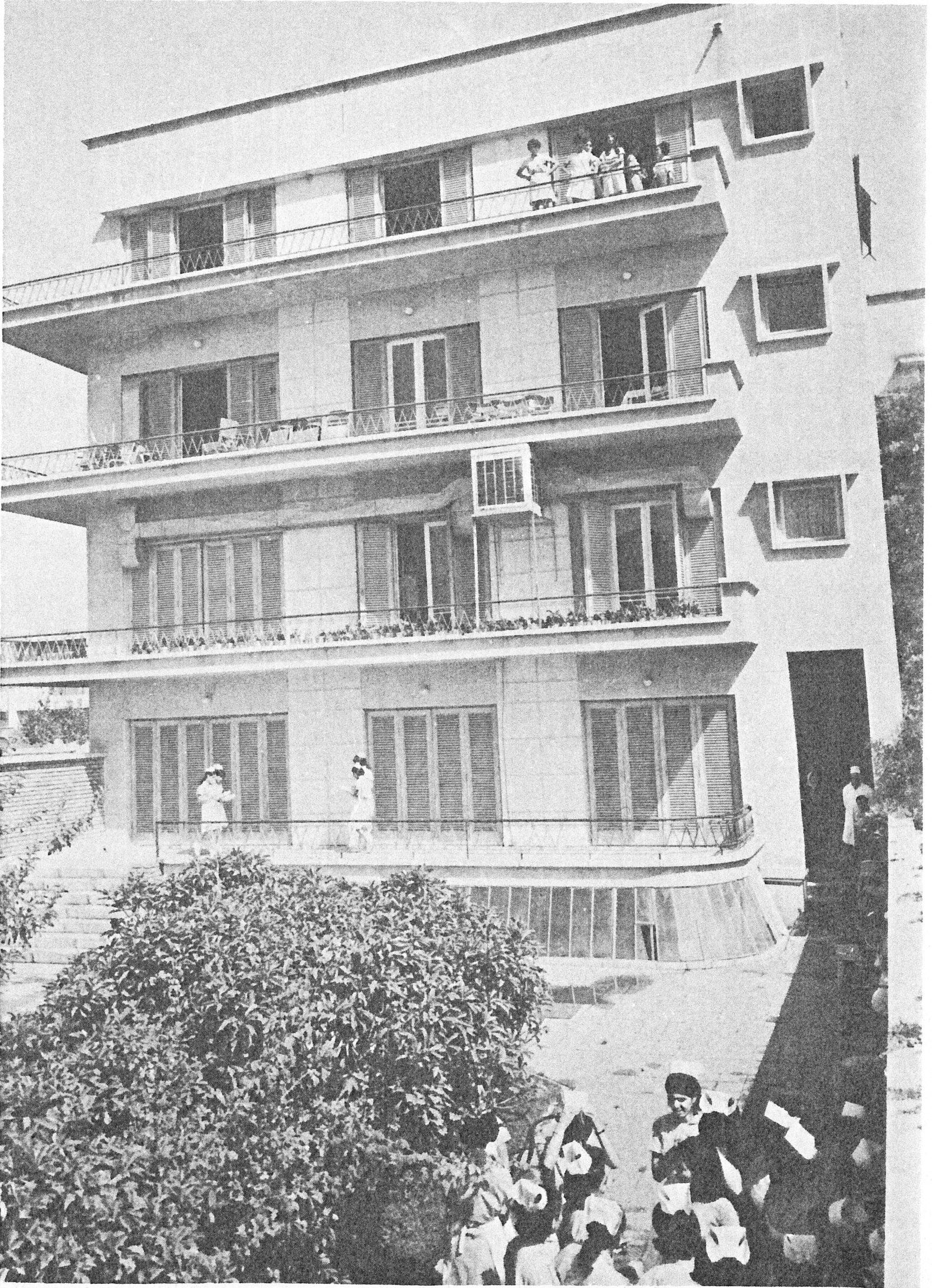 Farah nursing school, Tehran